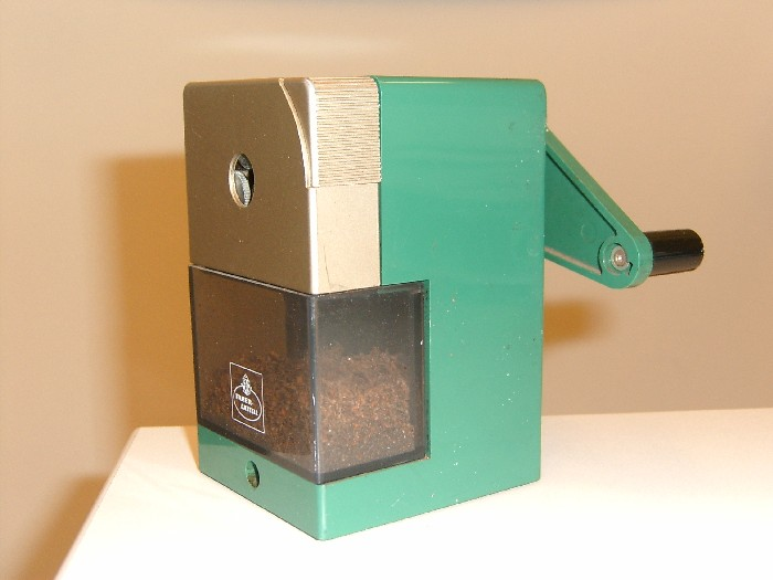 Pencil sharpener with a crank.